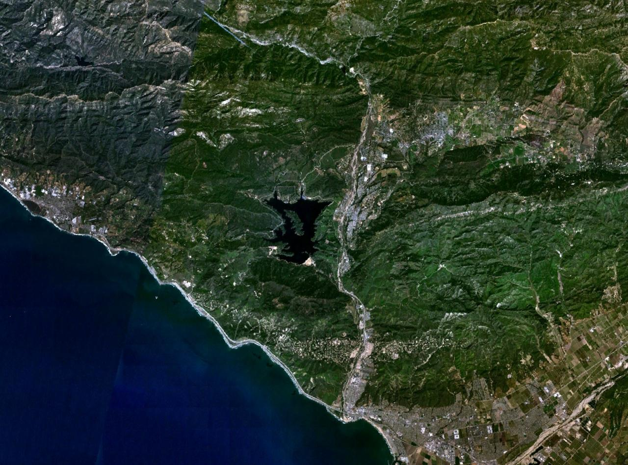 Lake Casitas in California. NASA Landsat 7 satellite view.